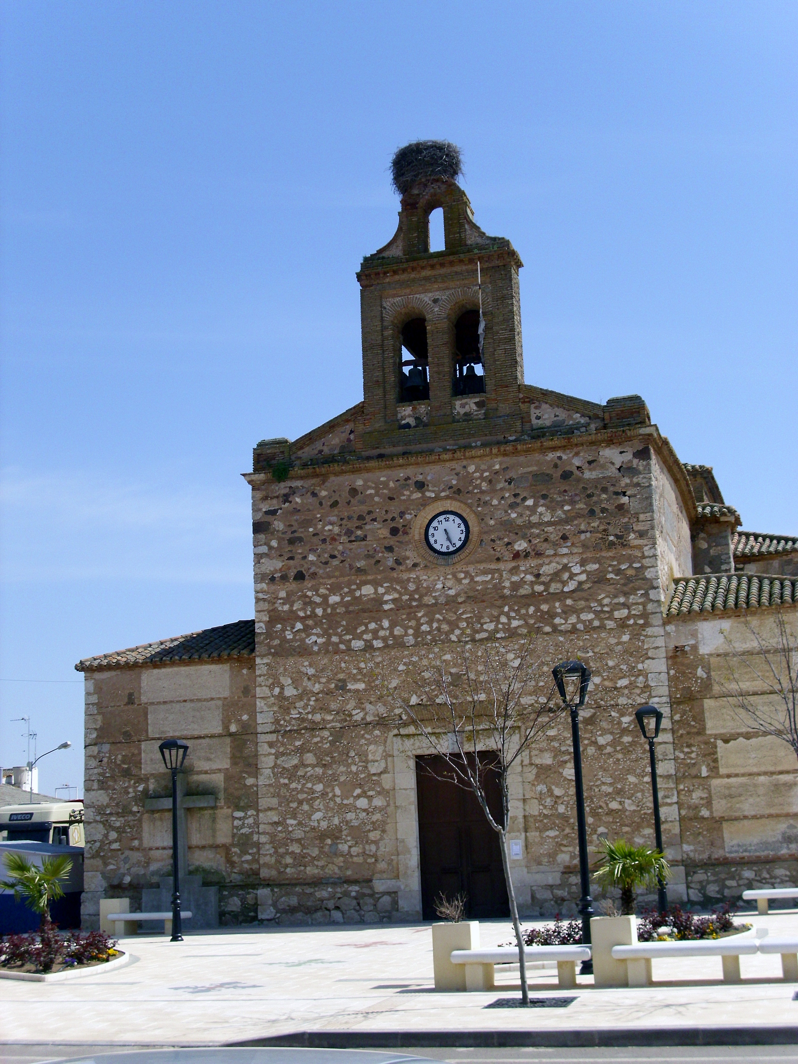 Poblete´s church Campo de Calatrava, Spain